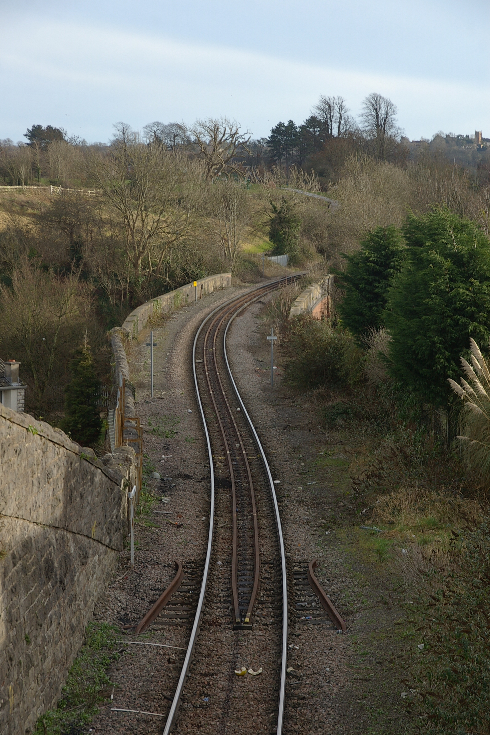 The Portishead Branchline viaduct just outside Pill railway station.